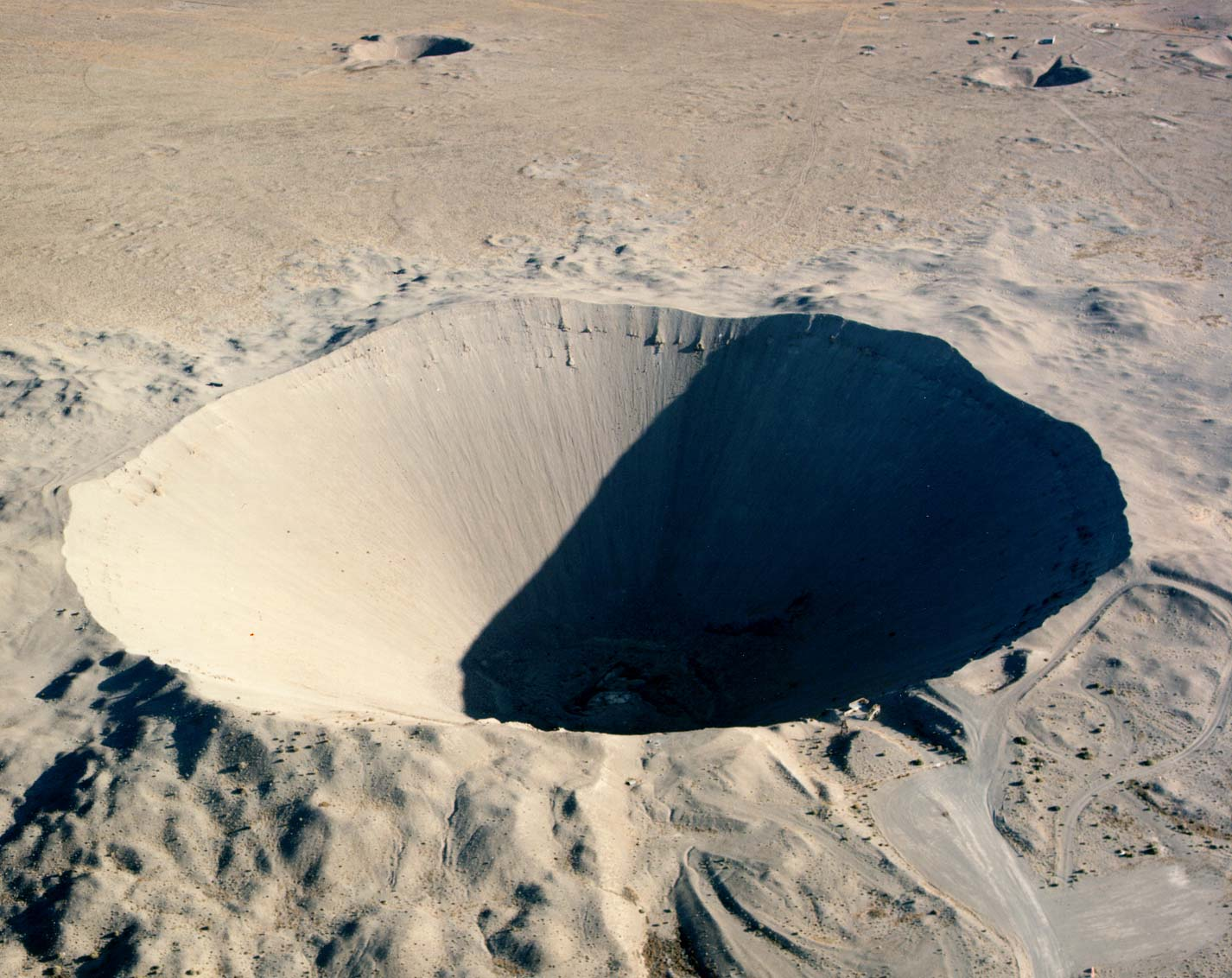 Crater from the 1962 "Sedan" nuclear test as part of Operation Plowshare. The 104 kiloton blast displaced 12 million tons of earth and created a crater 320 feet deep and 1,280 feet wide. (Look to the size of the roads in the bottom-right of the picture, and the observation deck at the lower-right edge of the crater, for a sense of scale)